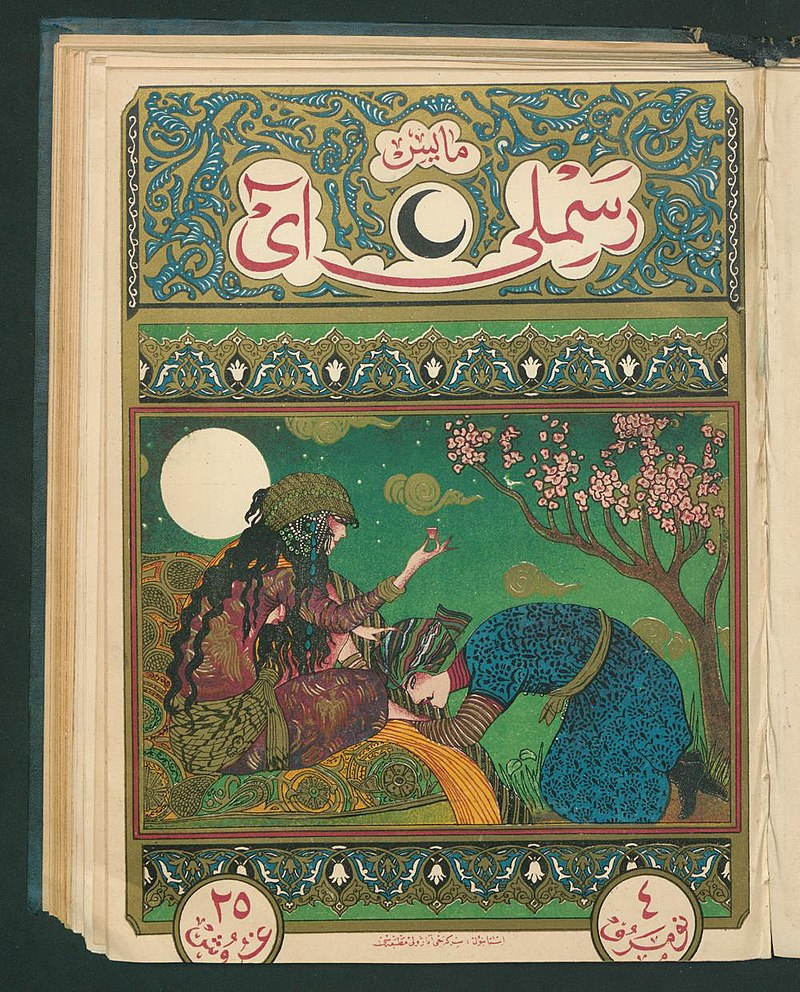 Cover Page of the first volume of the first issue of the Ottoman Turkish magazine Resimli Ay (1924-1938).